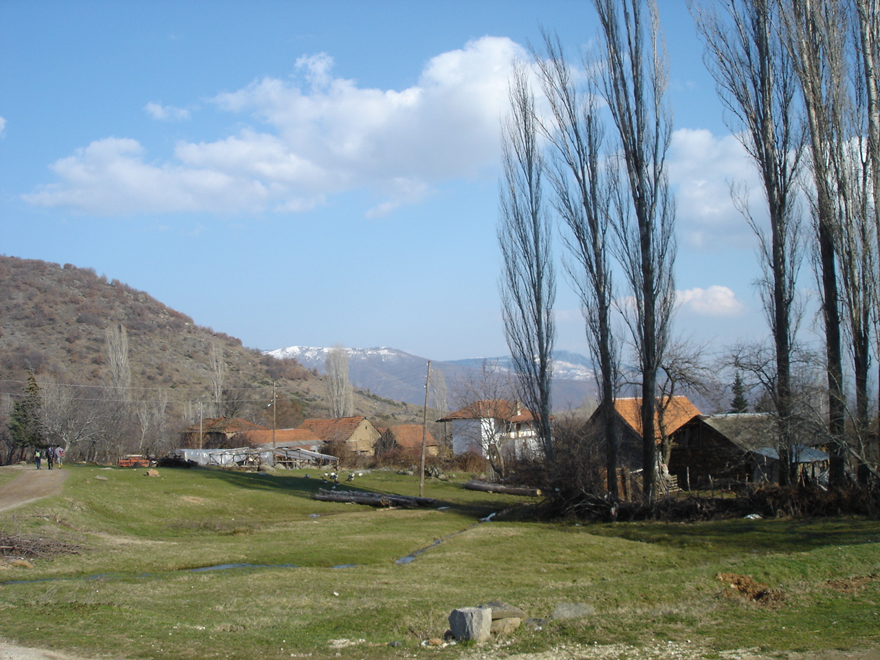 village of Dolgaec, Dolneni Municipality, Macedonia